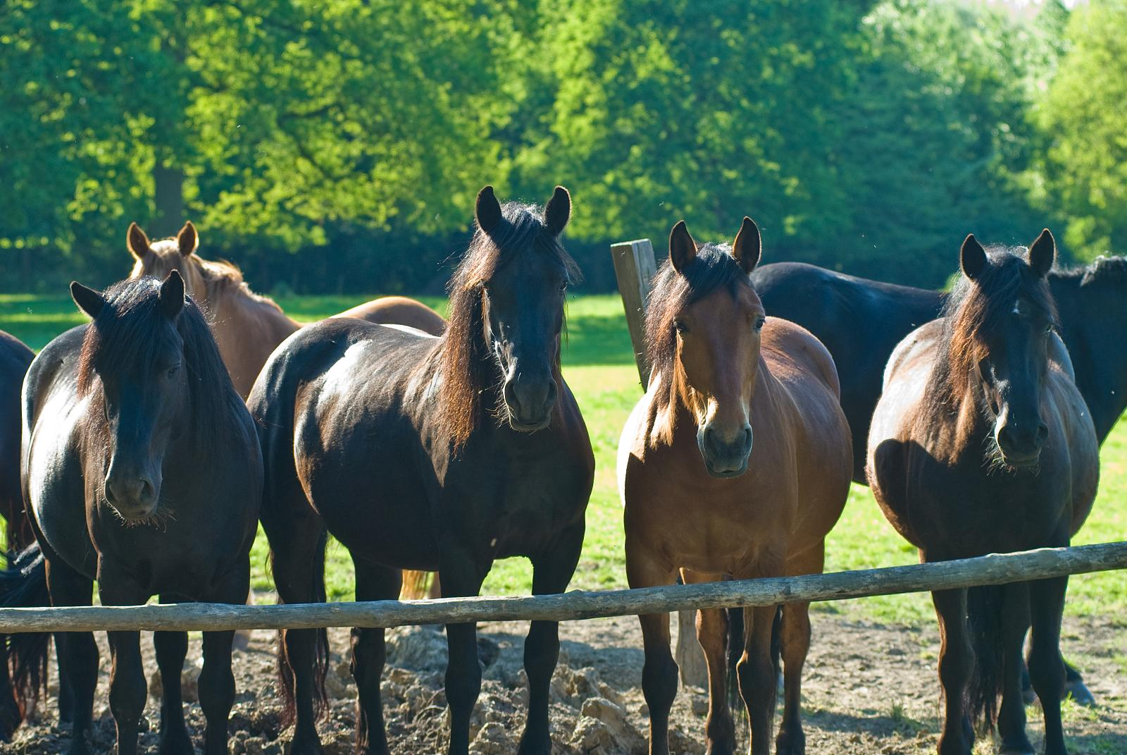 A group of horses in Ariege, among which are several Merens, characterized by their black coat color.